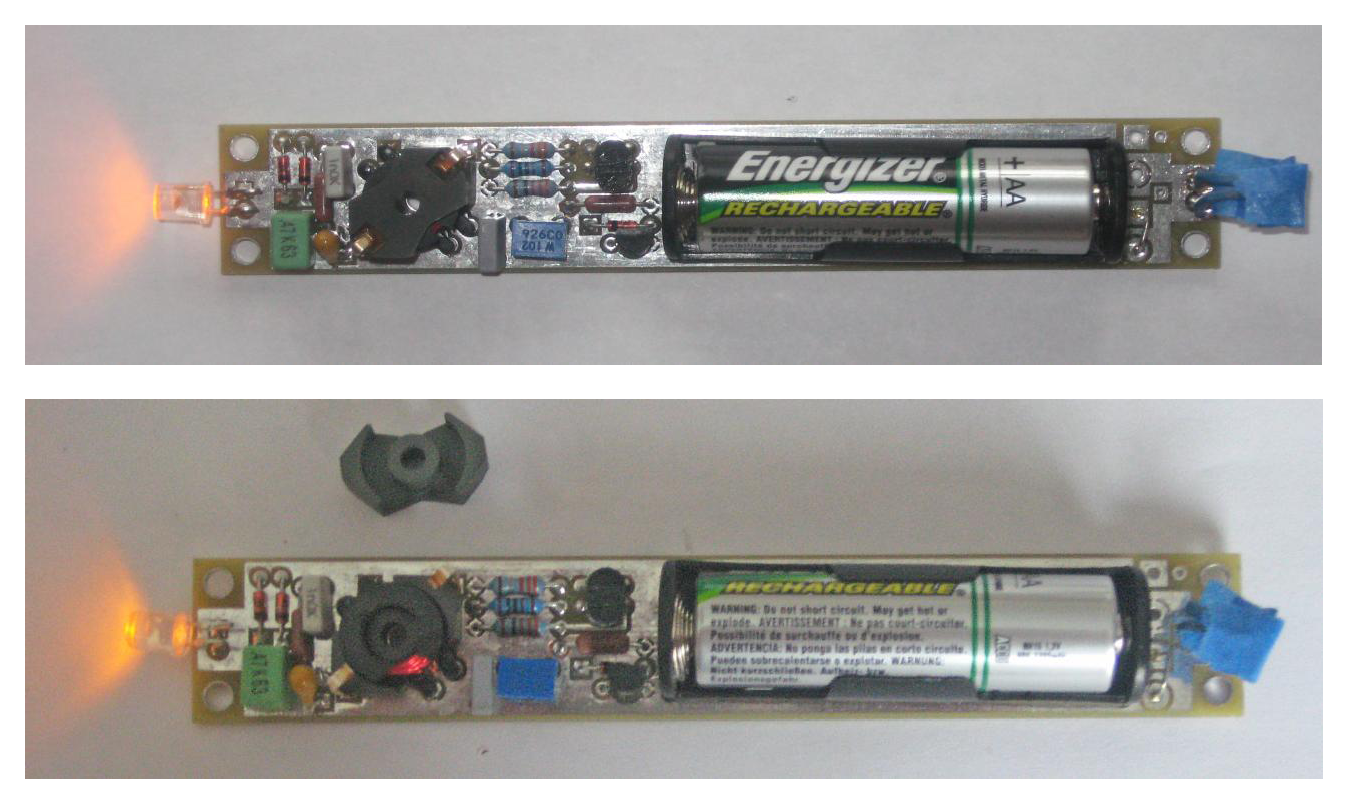 Two views of an assembled blocking oscillator that operates in both forward and flyback modes.